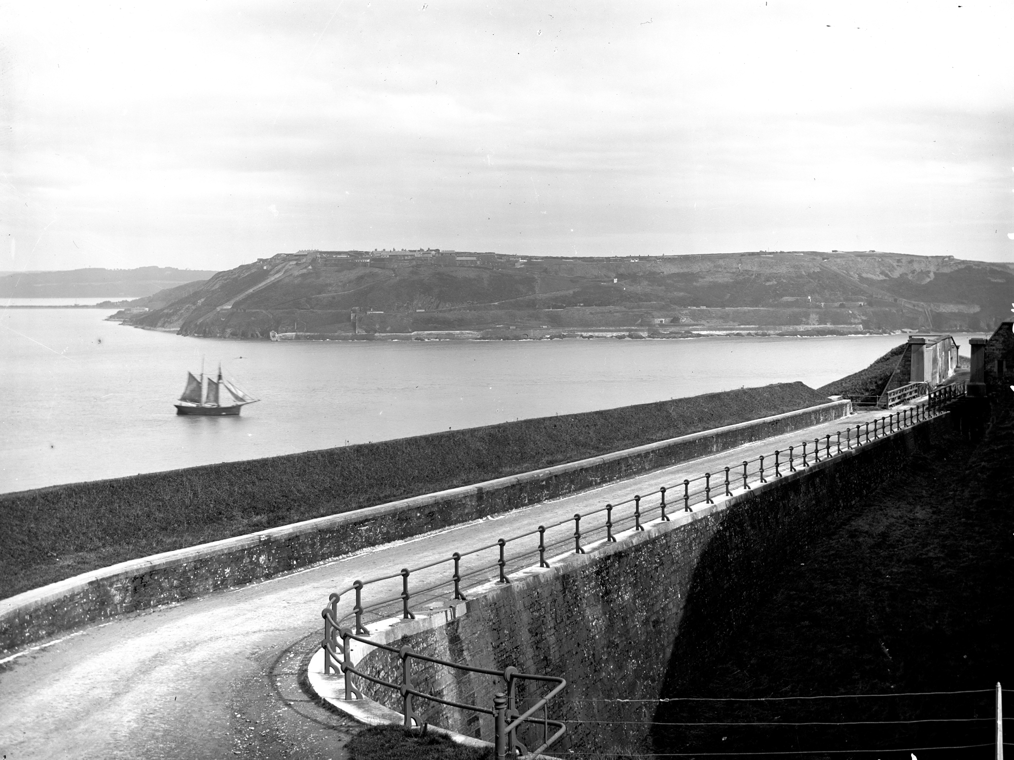 This strange shot is from the Lawrence Collection and is said to be taken on Carlisle Fort in Crosshaven! The wide expanse of water is suitably occupied by the presence of a sailing boat going by! Photographer: Given as William Lawrence but most of that collection was taken by Robert French. Collection: William Lawrence Collection Circa: 1865 - 1914 NLI REF: L_ROY_11639 You can also view this image, and many thousands of others, on the NLI’s catalogue at